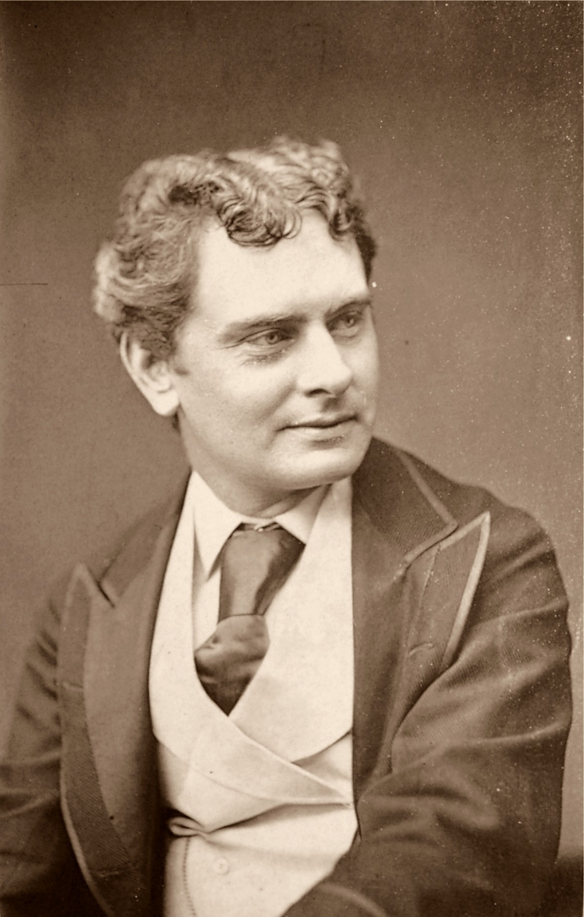 Arthur Cecil 1843-1896, English Actor, Commedian and Theatre-Manager.